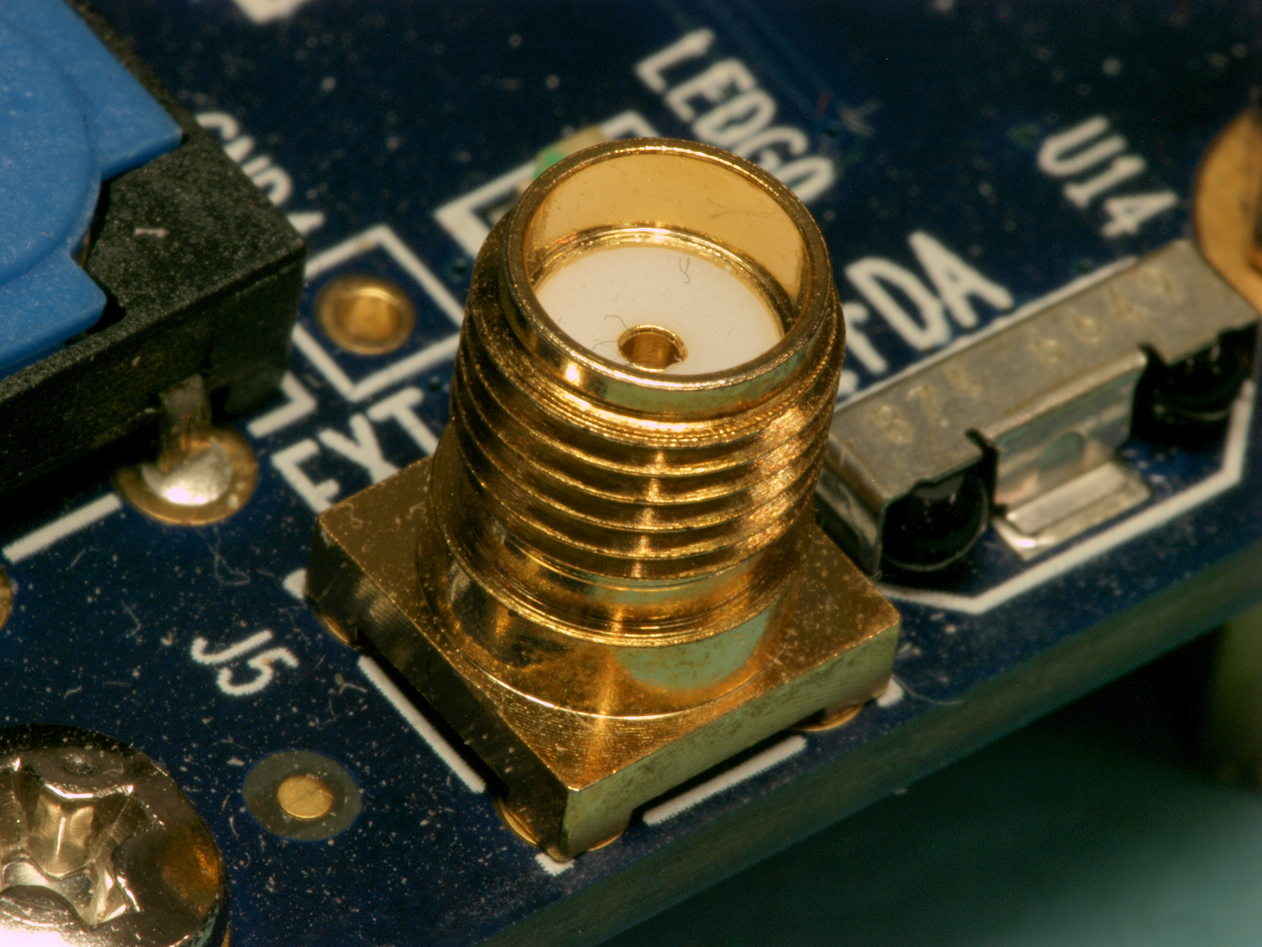 SMA socket mounted to printed circuit board